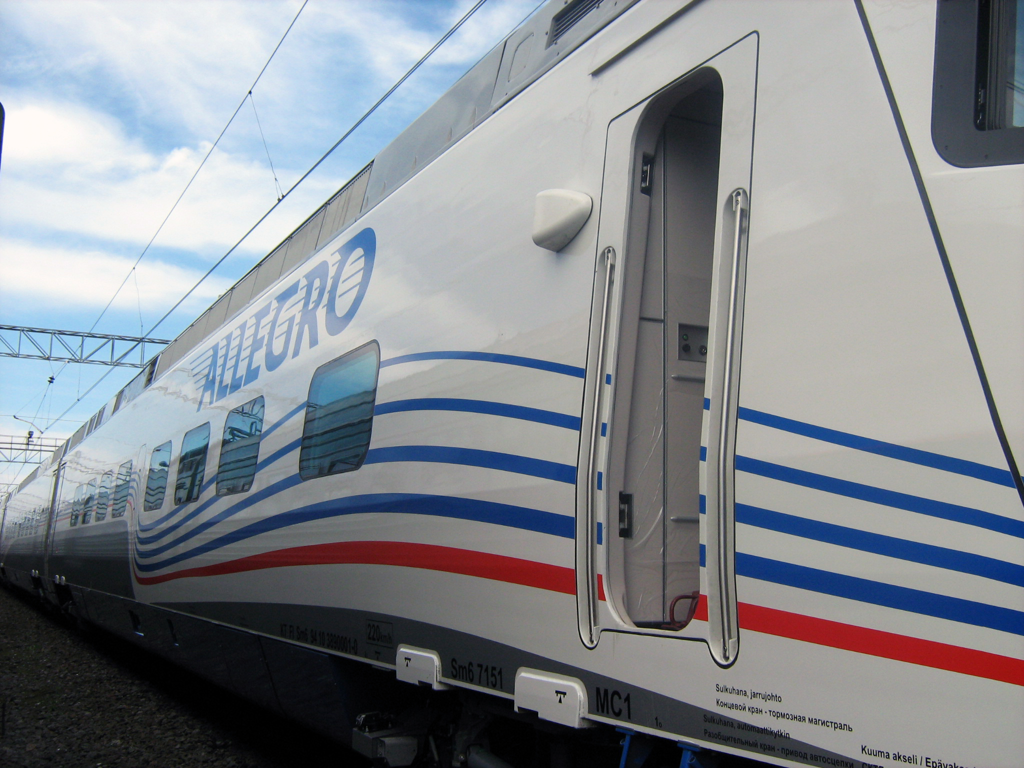 A Karelian Trains Class Sm6 train (Allegro)